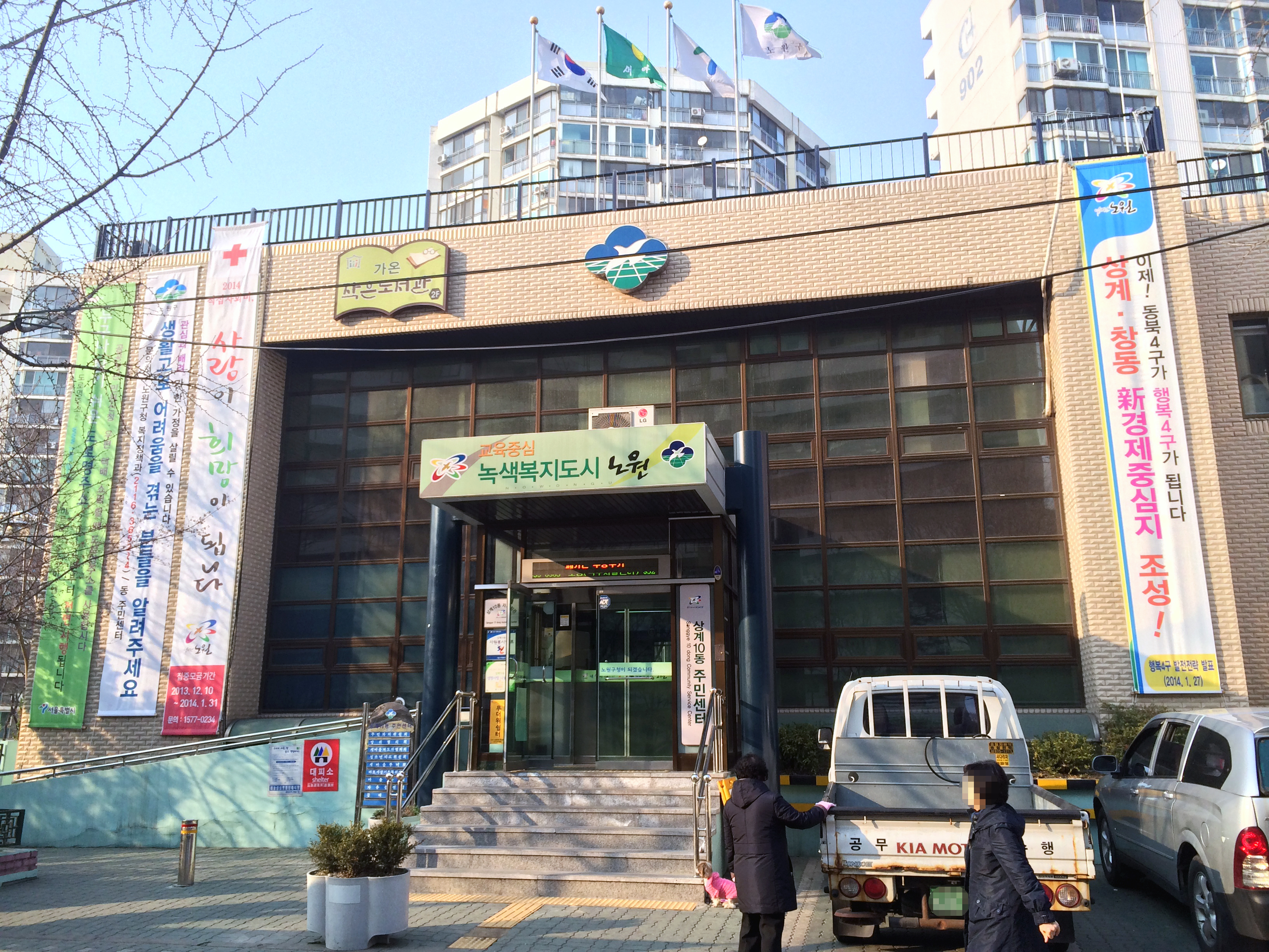 Sanggye 10-dong Comunity Service Center (Nowon-gu)